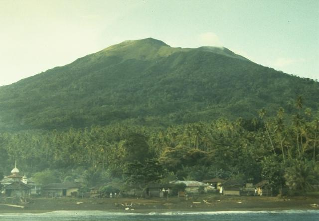 Gamkonora volcano, seen here from the NW coast near Gamsungi village, is one of Halmahera's more active volcanoes. The summit crater of Gamkonora is elongated in a N-S direction, with a small crater lake at the north end. The first two historical eruptions, in 1564 or 1565, and in 1693, were the most severe, producing respectively a destructive lava flow that reached the sea, and a tsunami that inundated villages.